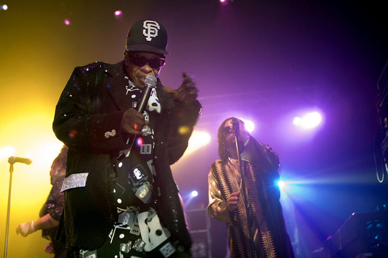 Sly and the Family Stone play the Opera House in Bournemouth. Mojo review.